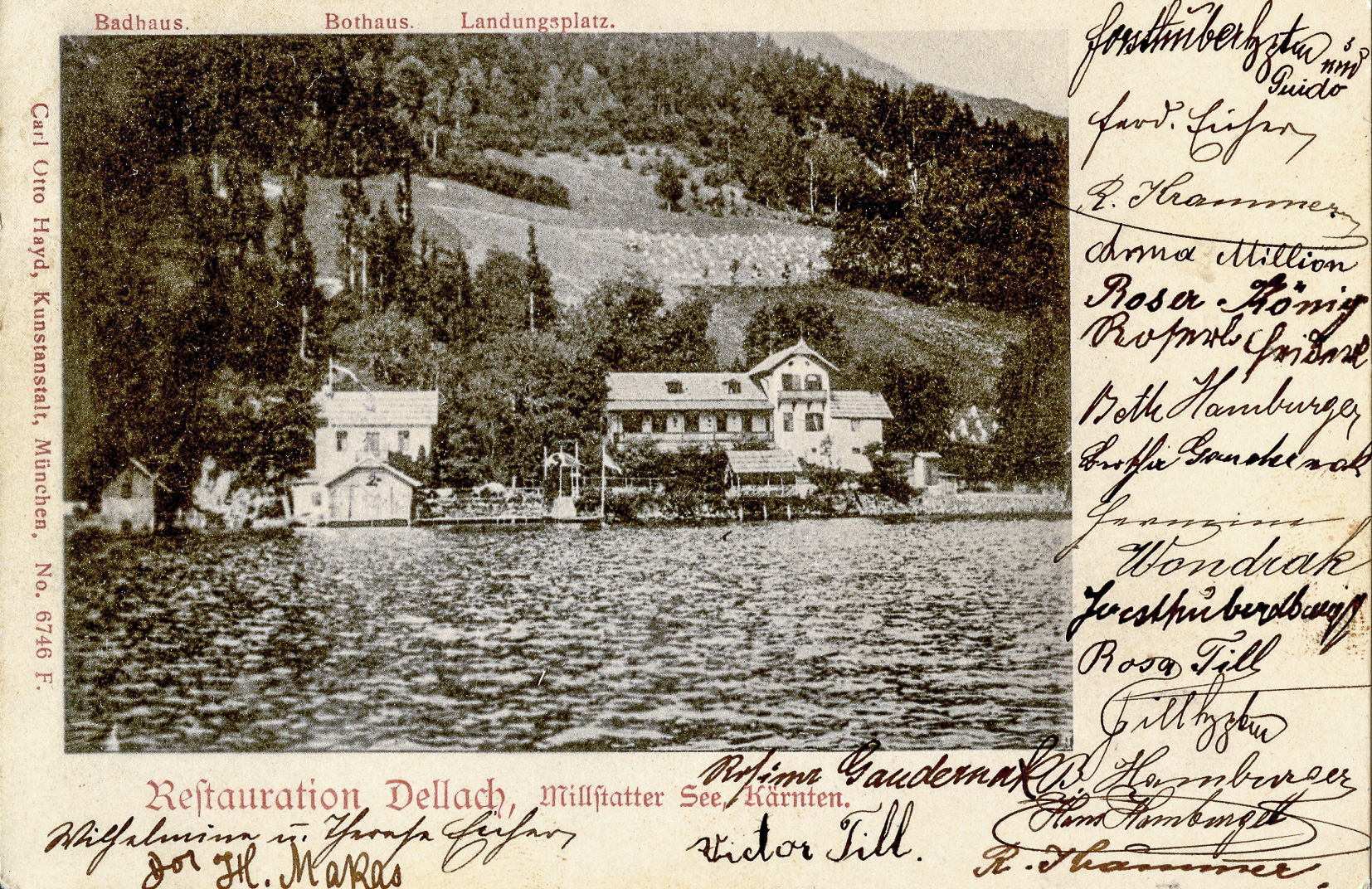 Restauration Dellach (Herring / Härring) in Dellach at Lake Millstatt in Carinthia / Austria / EU around 1900.